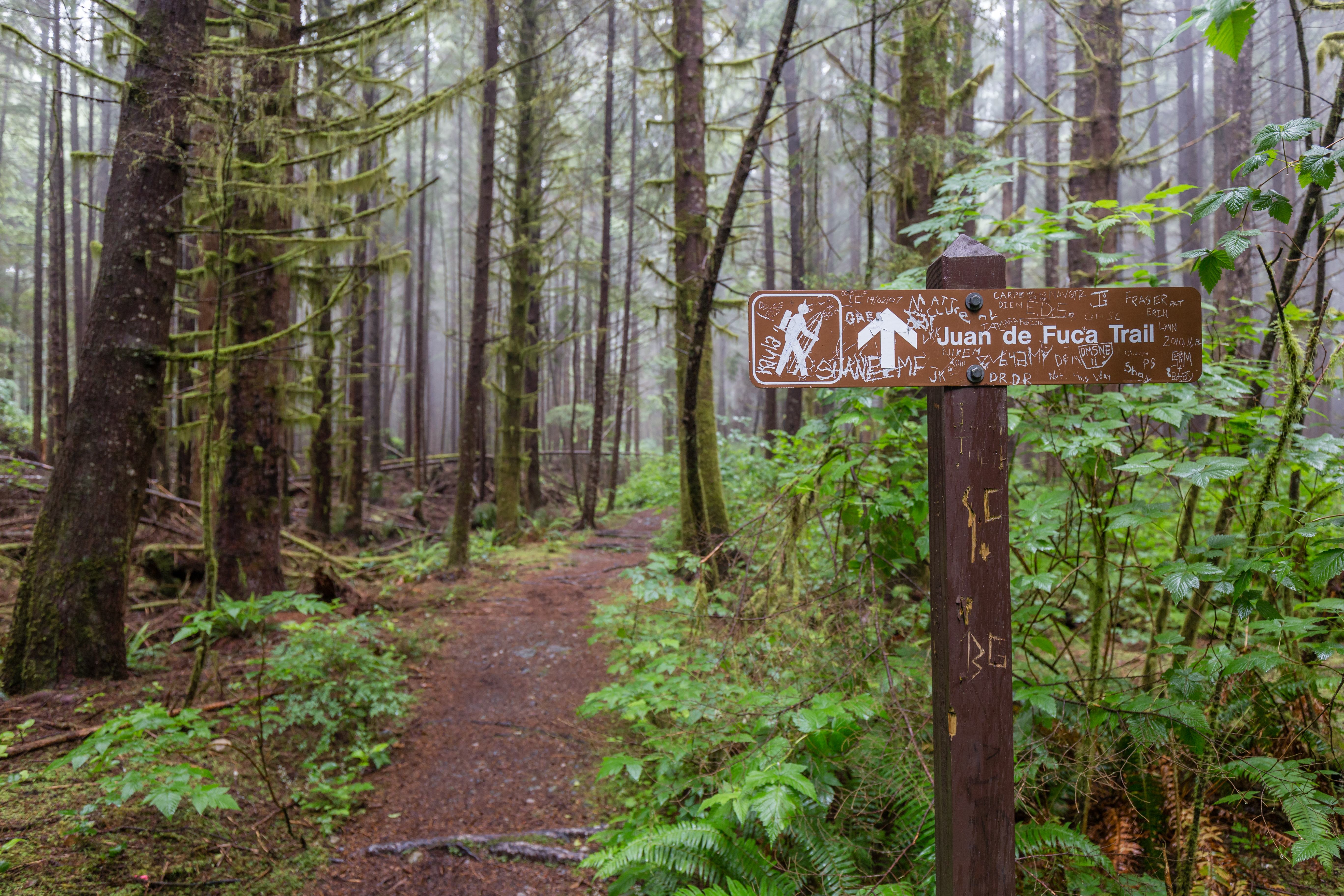 Flat section close to Sombrio Point, Juan de Fuca Trail, Vancouver Island, Canada